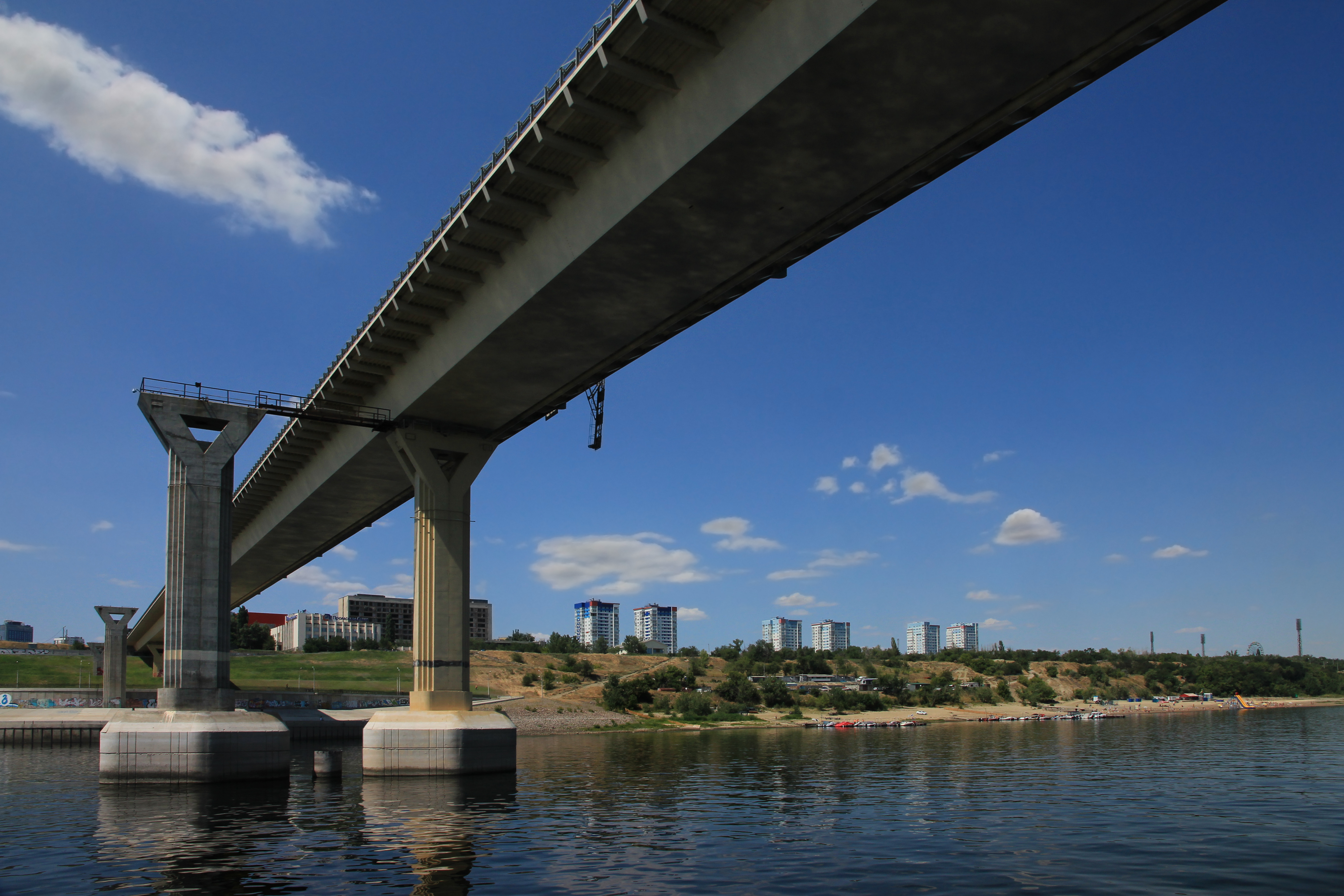 The bridge across Volga river at Volgograd, 1260 m long, 32 m wide